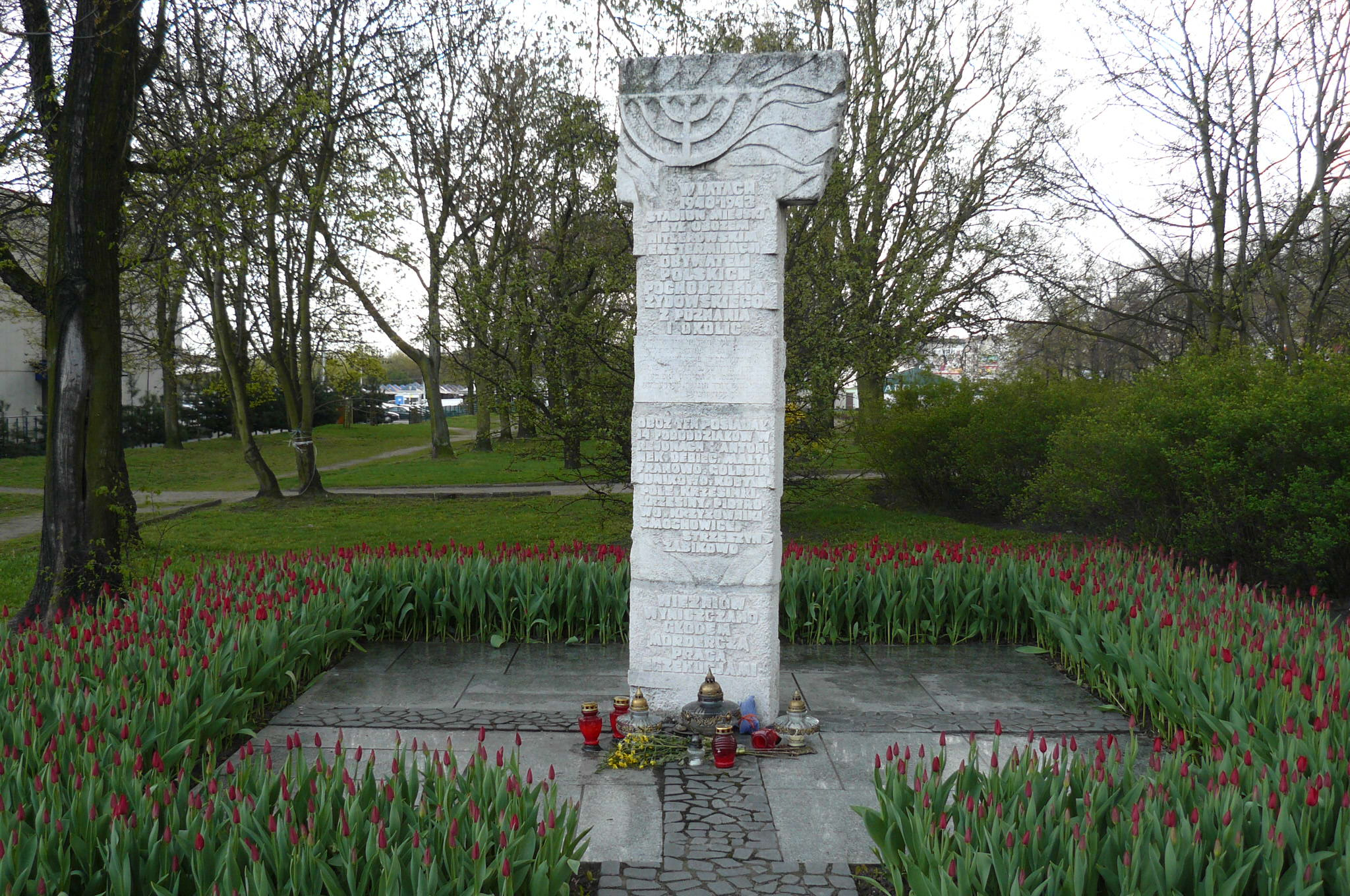 Jews Monument - Poznan, Kr. Jadwigi Street.